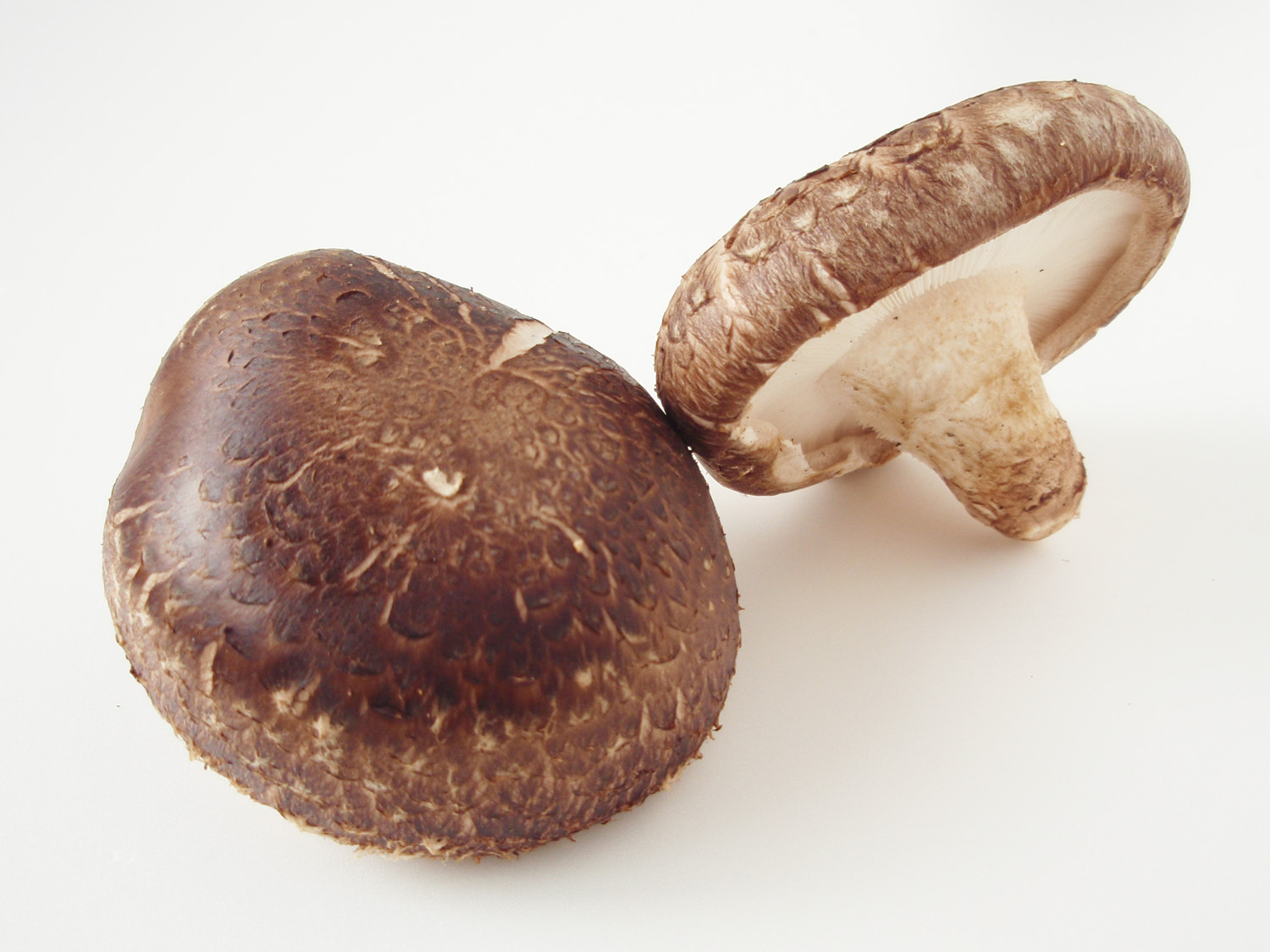 Shiitake. Binomial name: Lentinula edodes